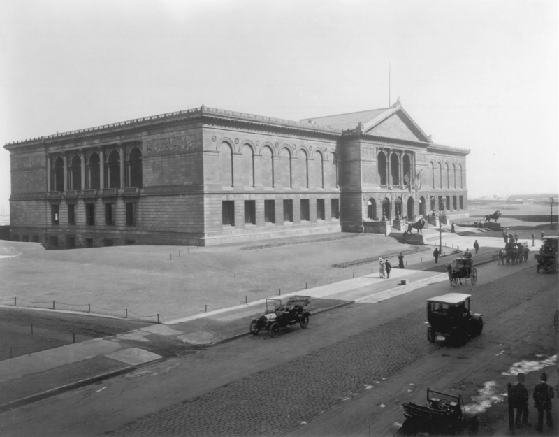 The Art Institute of Chicago, circa 1900.